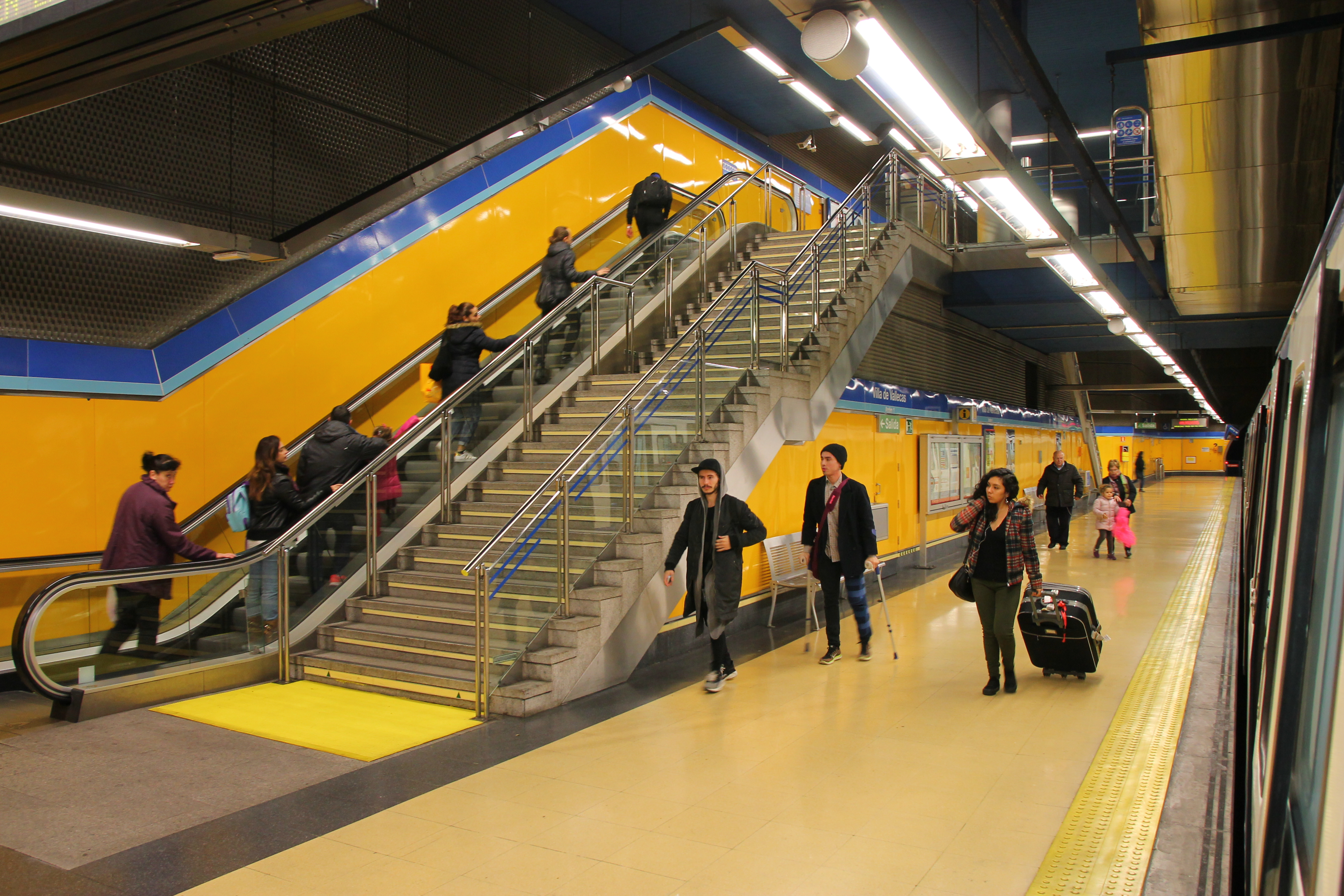 Villa de Vallecas station. Madrid Metro.